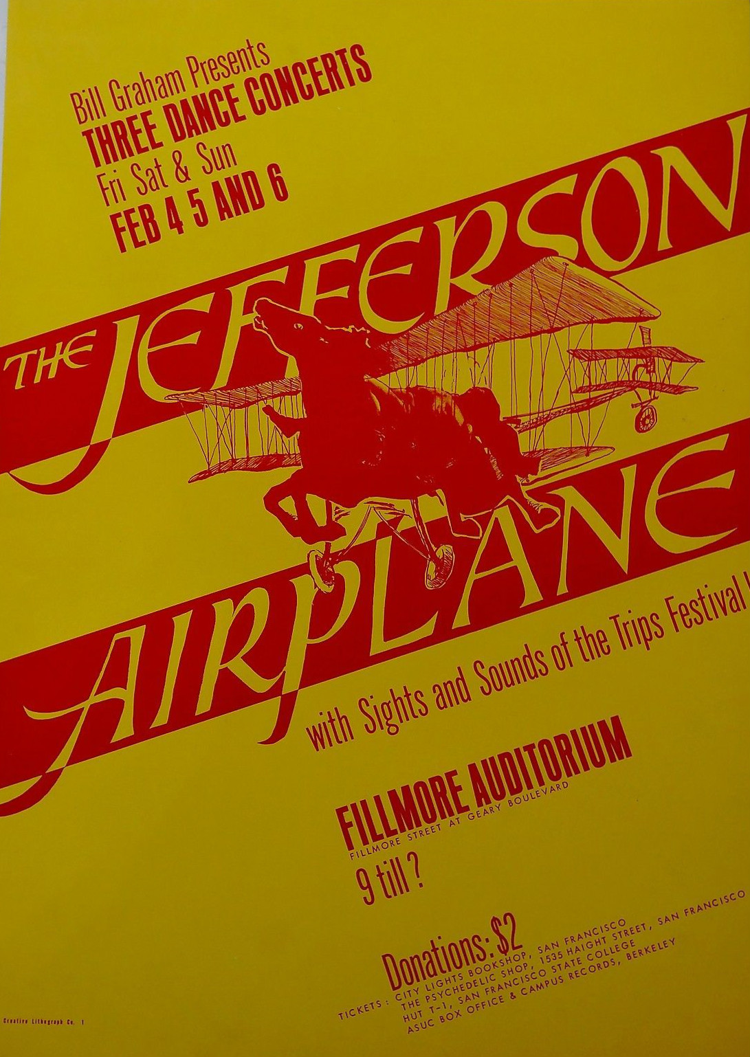 Poster from Bill Graham's Fillmore Auditorium featuring Jefferson Airplane.